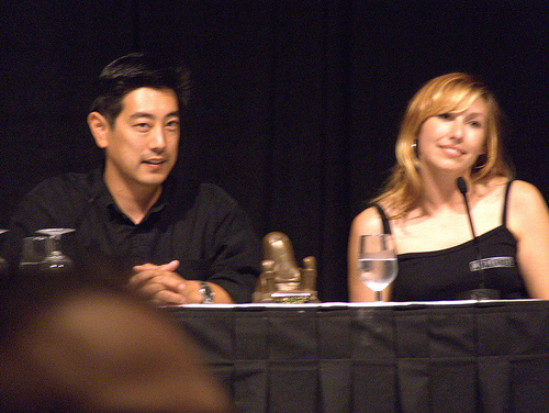 myth busters